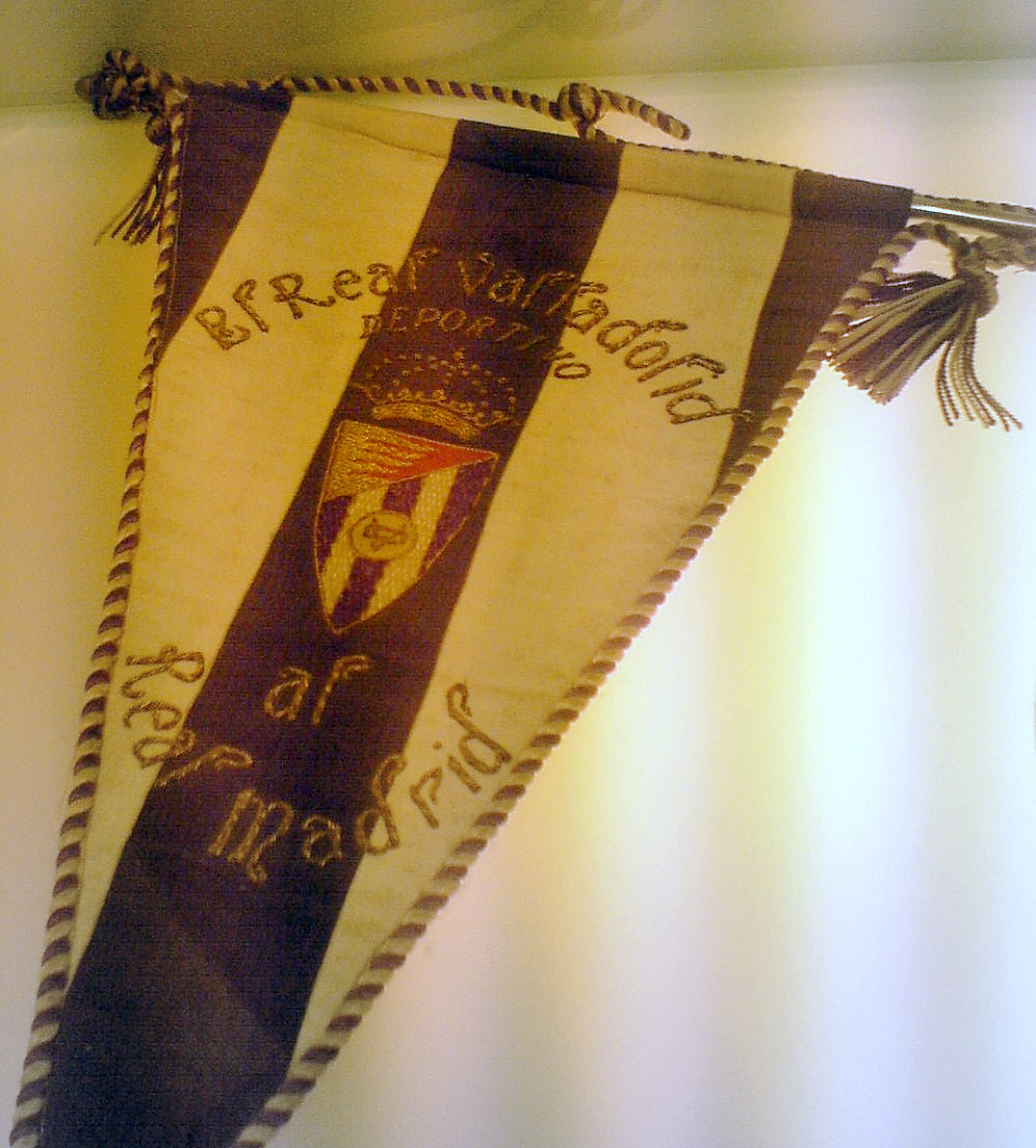 Fanion from Real Valladolid to Real Madrid circa 1956.